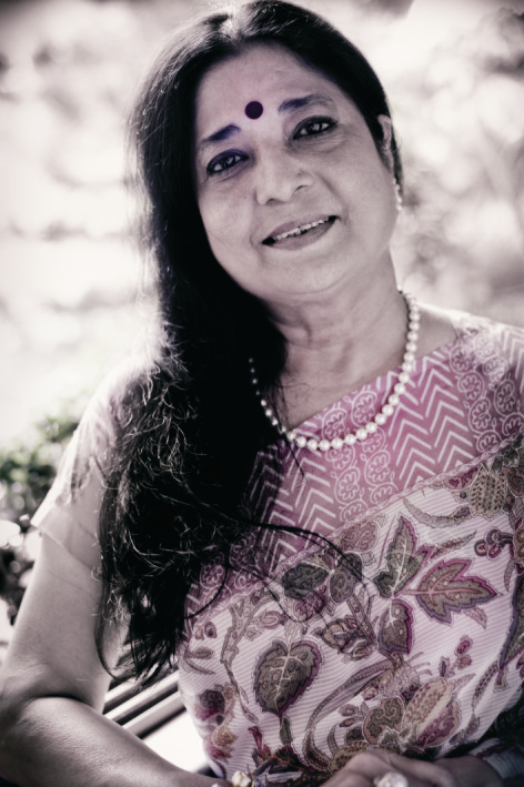 Kalpana Shah at her residence in Mumbai, India.